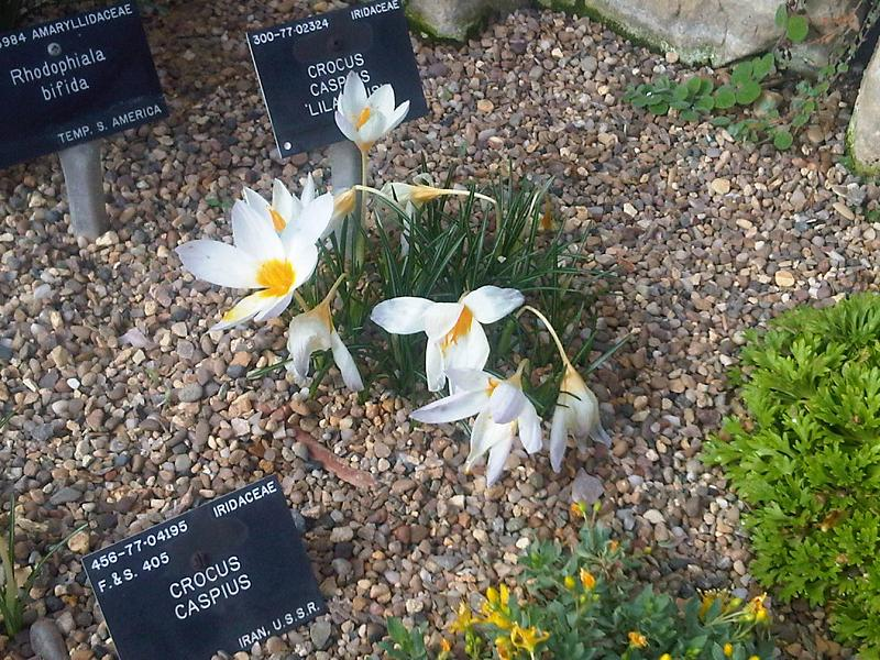 Crocus caspius flowers in Kew Gardens, England.